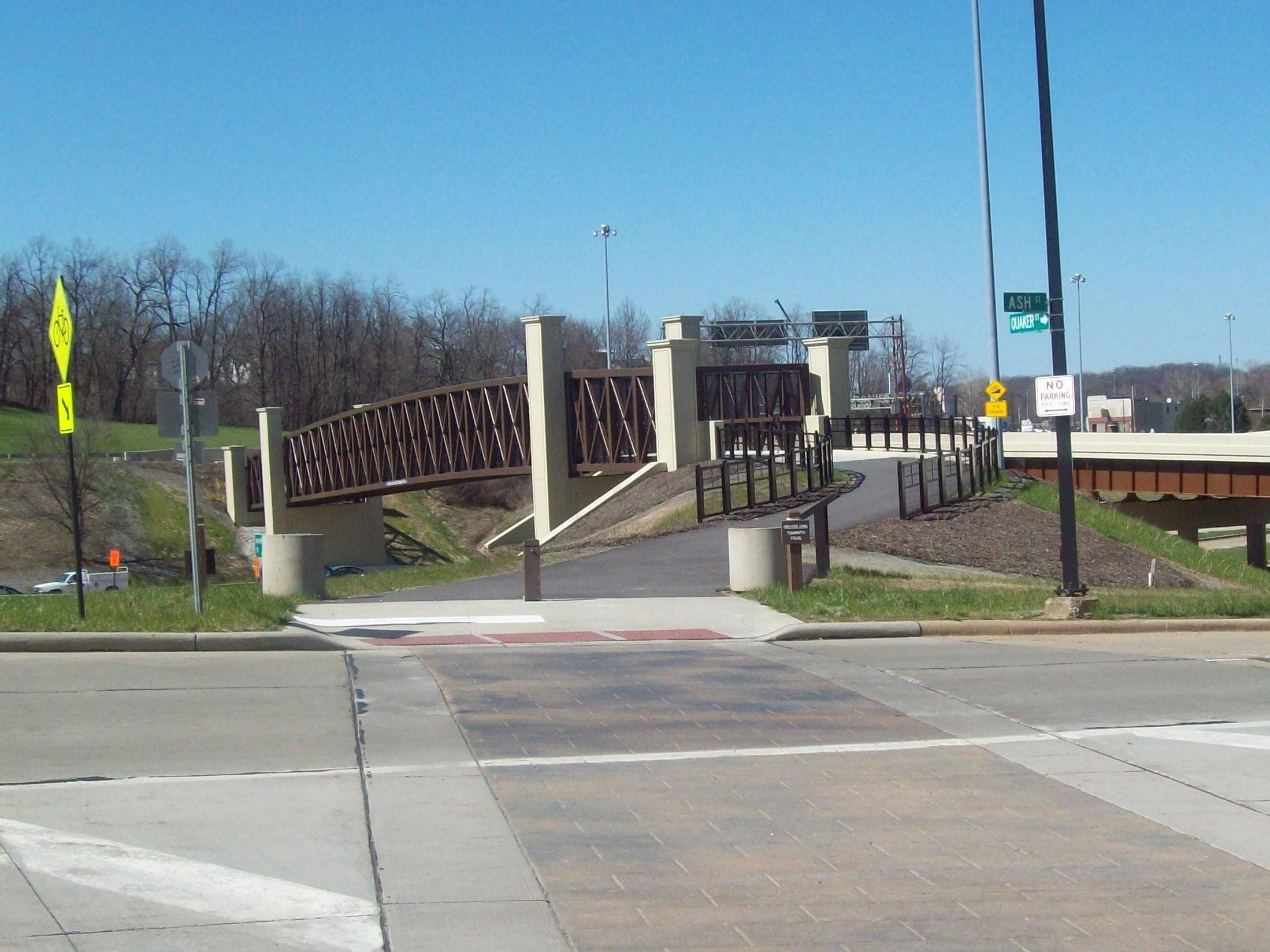 Ohio & Erie Canal Towpath Trail